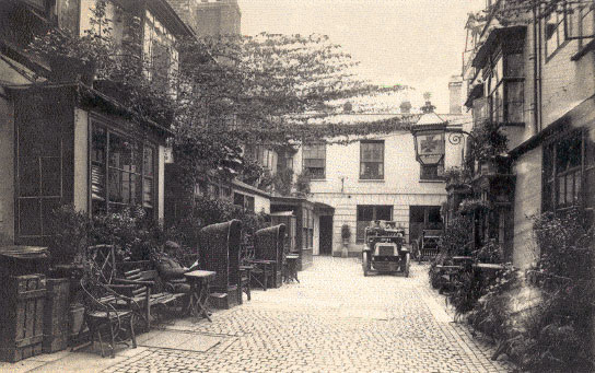 Golden Cross Yard, 5 Cornmarket Street, Oxford, England: view looking east from the Cornmarket Street entrance in 1907